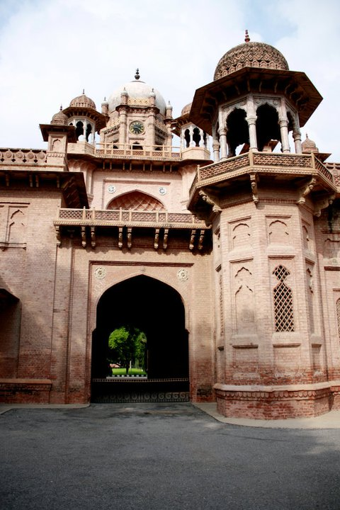 Aitchison College This is a photo of a monument in Pakistan identified as the PB-P-55